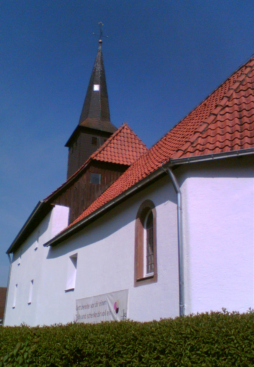 church in Hilwartshausen nearby Dassel Germany